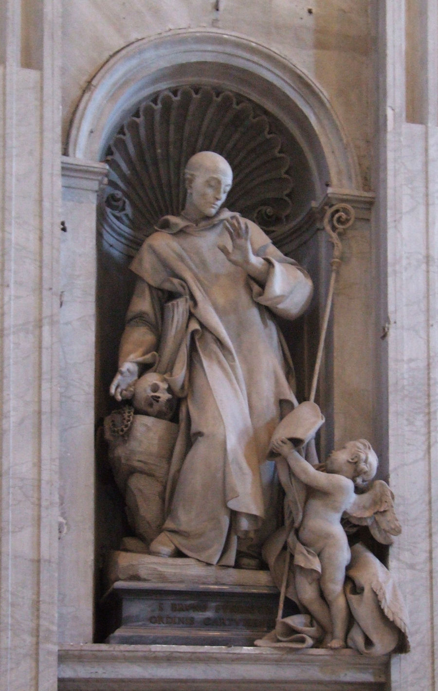 St. Peter's Basilica, Rome, Italy